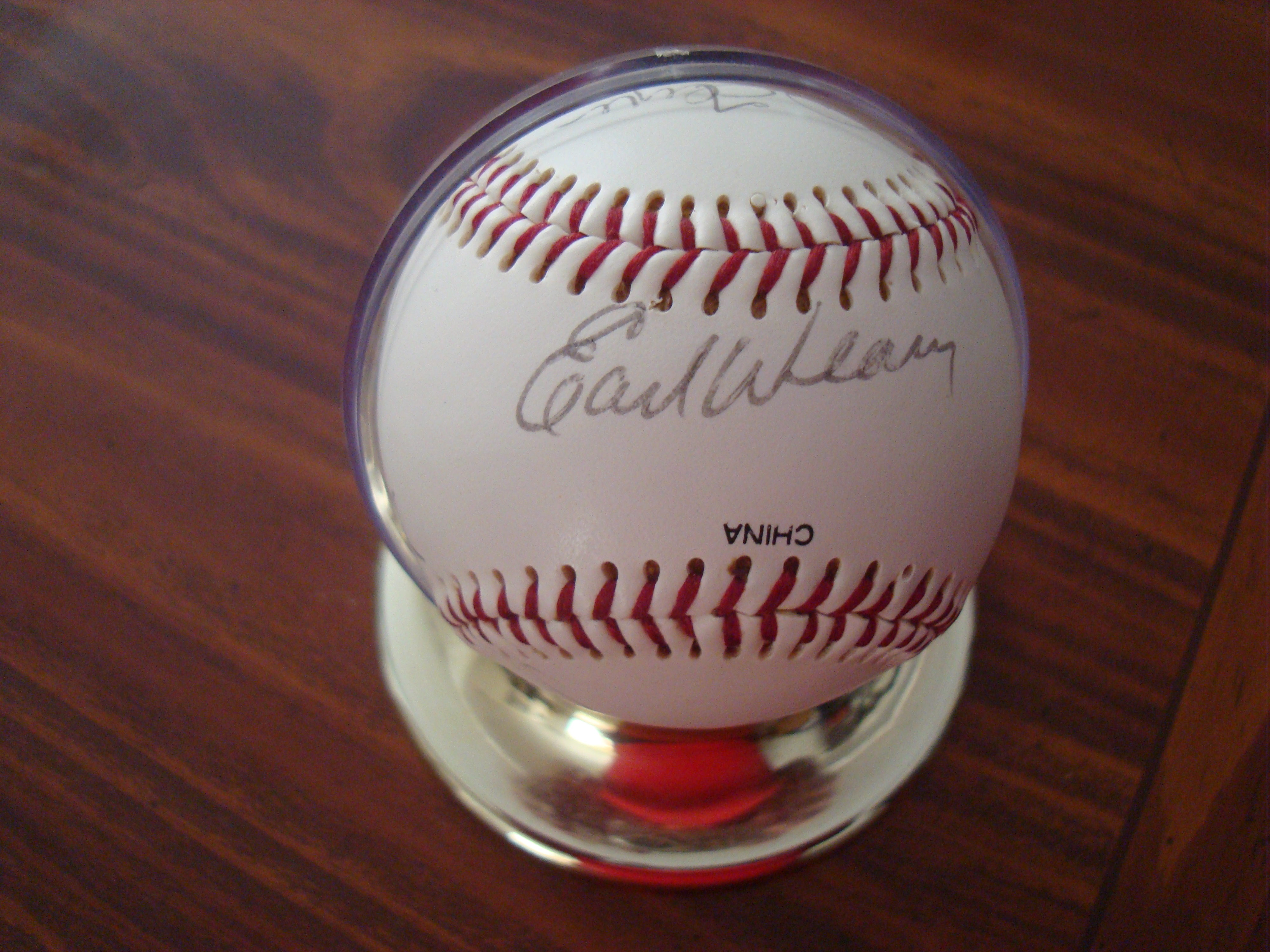 A baseball signed by Hall of Fame member Earl Weaver. This was signed by Weaver circa 1992-1993 at Little Creek Naval Amphibious Base, Virginia, USA during a baseball-signing tour by Weaver and 4 additional former major league baseball players: Bob Feller, Paul Blair, Rick Waits, and Doug Flynn. Feller was already in the Hall of Fame at the time of the signing and Weaver became a member a few years later. The front cover of the holder was removed to reduce glare.